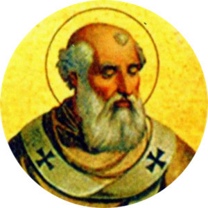 Portait of Pope Zachary in the Basilica of Saint Paul Outside the Walls, Rome